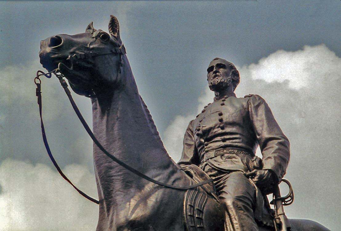 Equestrian Statue of General Henry Warner Slocum at Gettysburg battlefield, by sculptor Edward Clark Potter